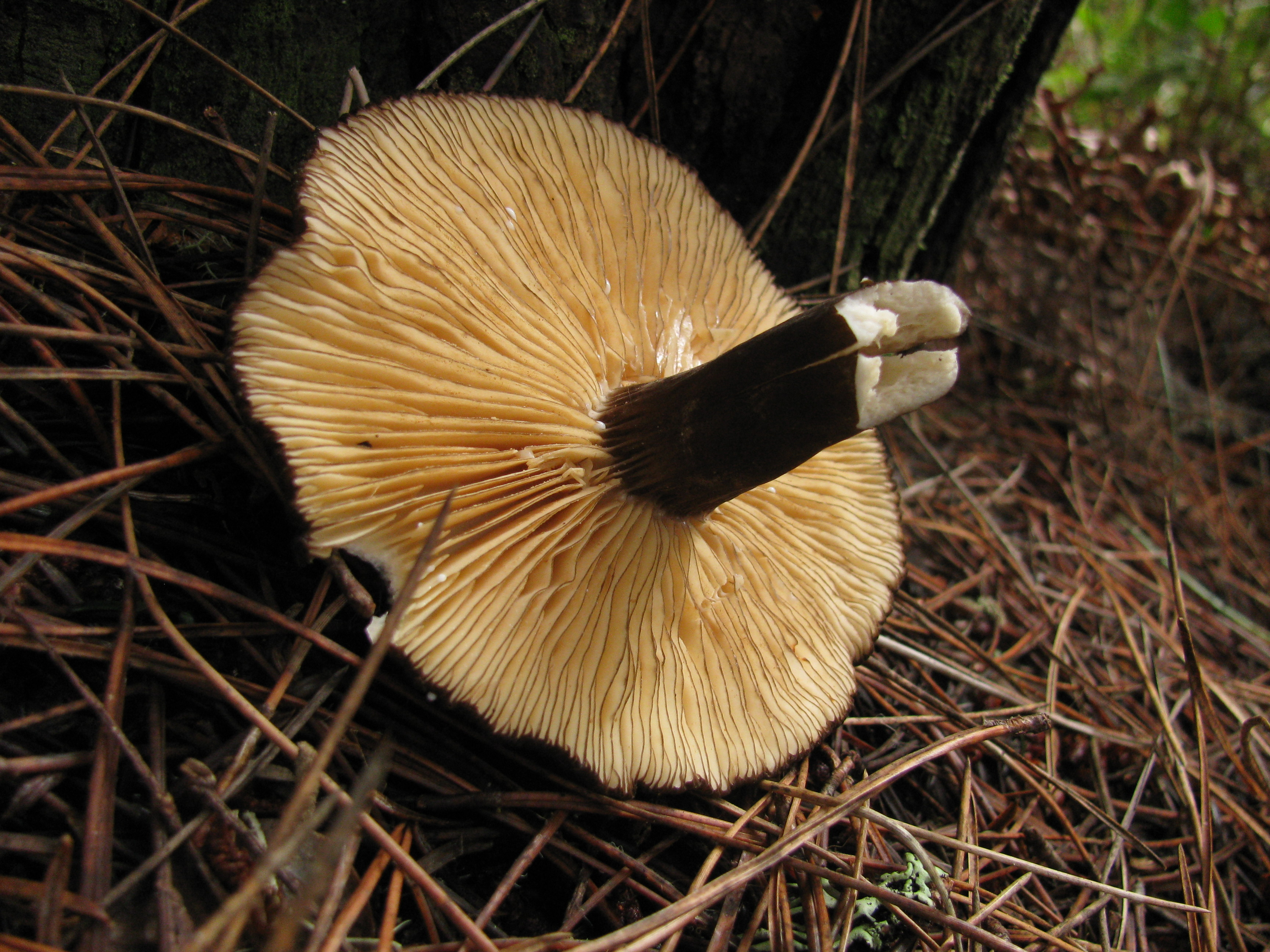 The milk mushroom Lactarius fallax A.H. Sm. & Hesler. Specimen photographed in Mendocino, Mendocino Co., California, USA.